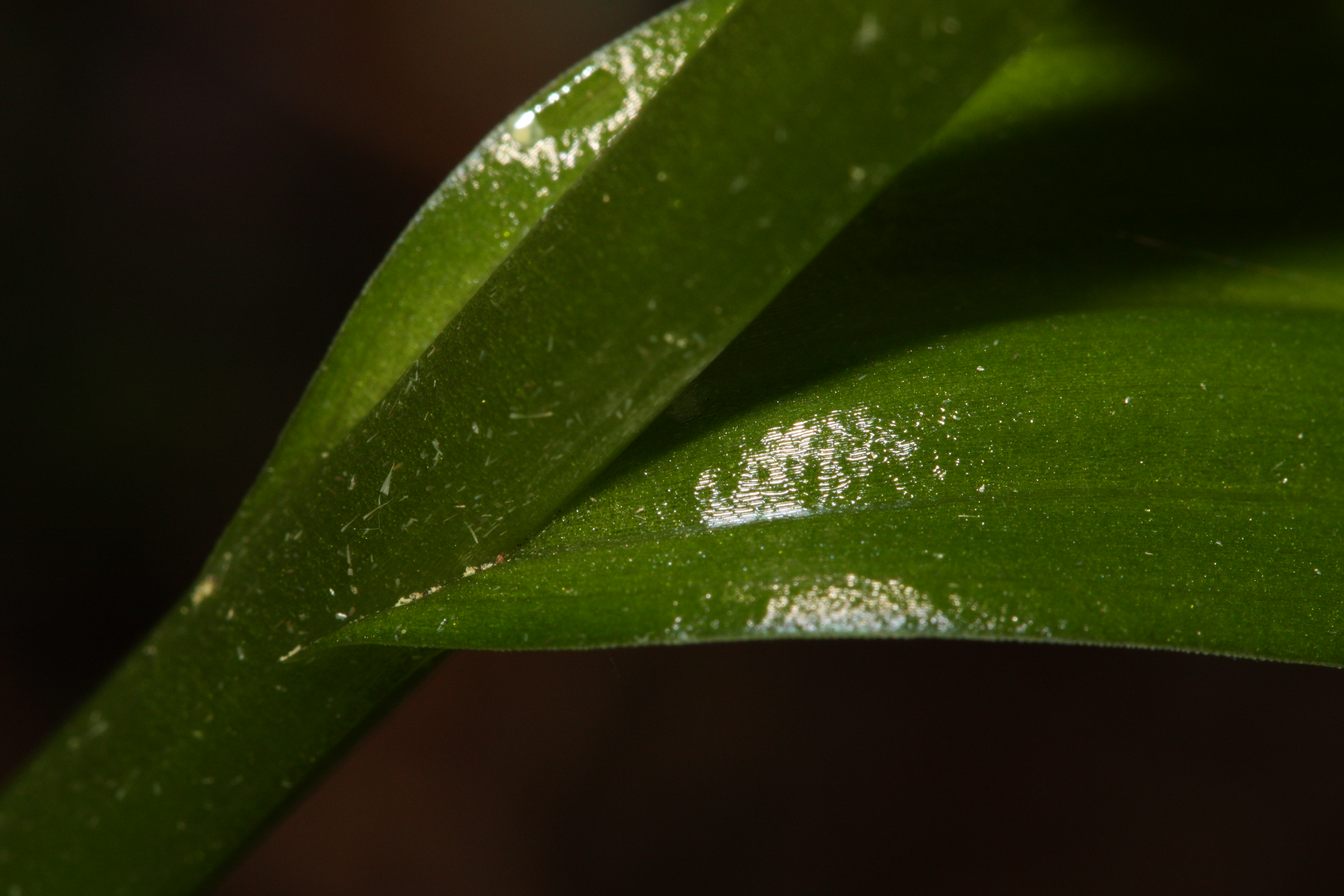 Slender Bog Orchid syn. Habenaria saccata Greene